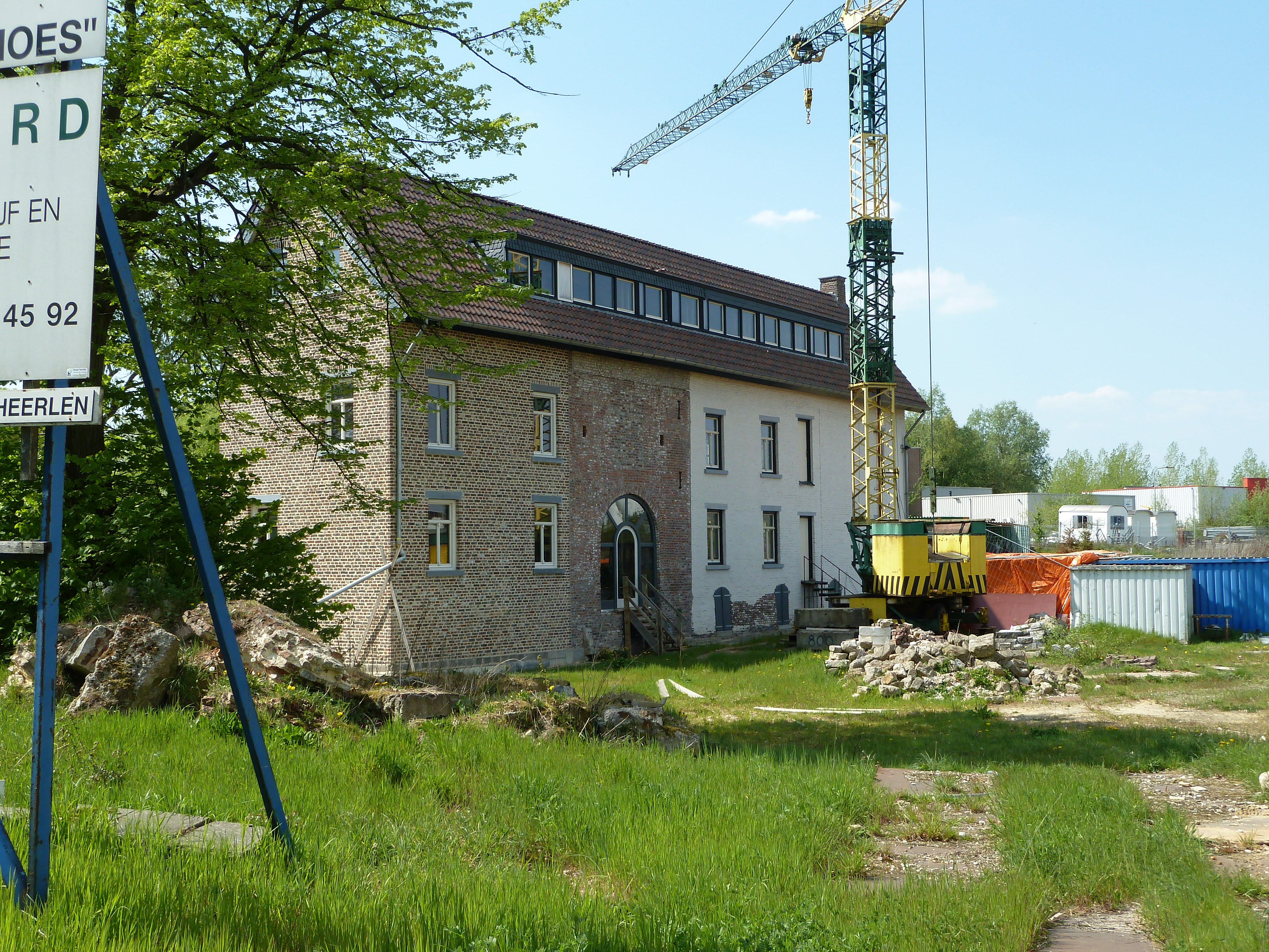 Castle Gen Hoes, Brunssum, Limburg, the Netherlands